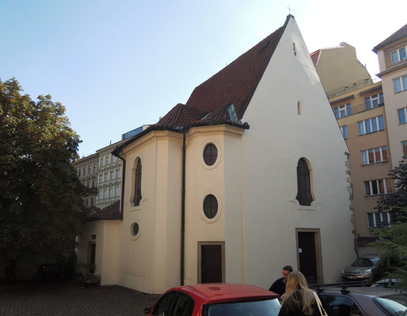 Prague, St. John Na pradle from NW